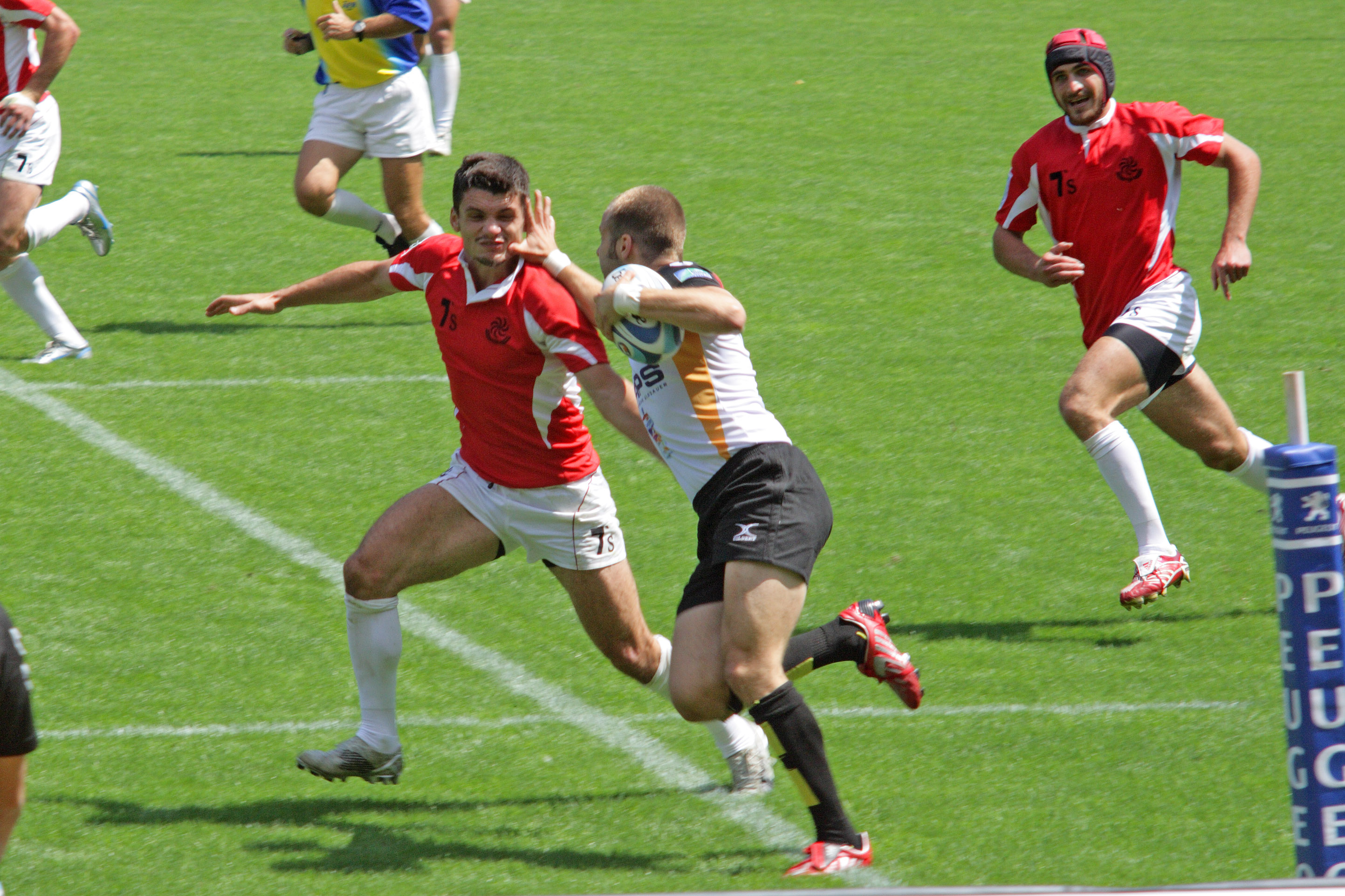 European Sevens 2008 (Hannover Sevens) tournament in Hannover, Germany. Fourth game in group A: Germany vs Georgia. The German ball carrier pushes a Georgian player in the face (not seen by referee). Georgia won the game with 0:26 points.